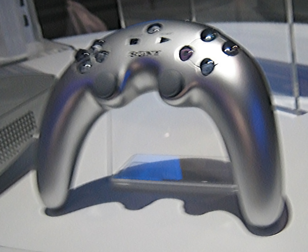 The proposed PS3 "boomerang" controller. This concept/prototype was abandoned before the PS3 launched, with the Sixaxis controller being launched instead.